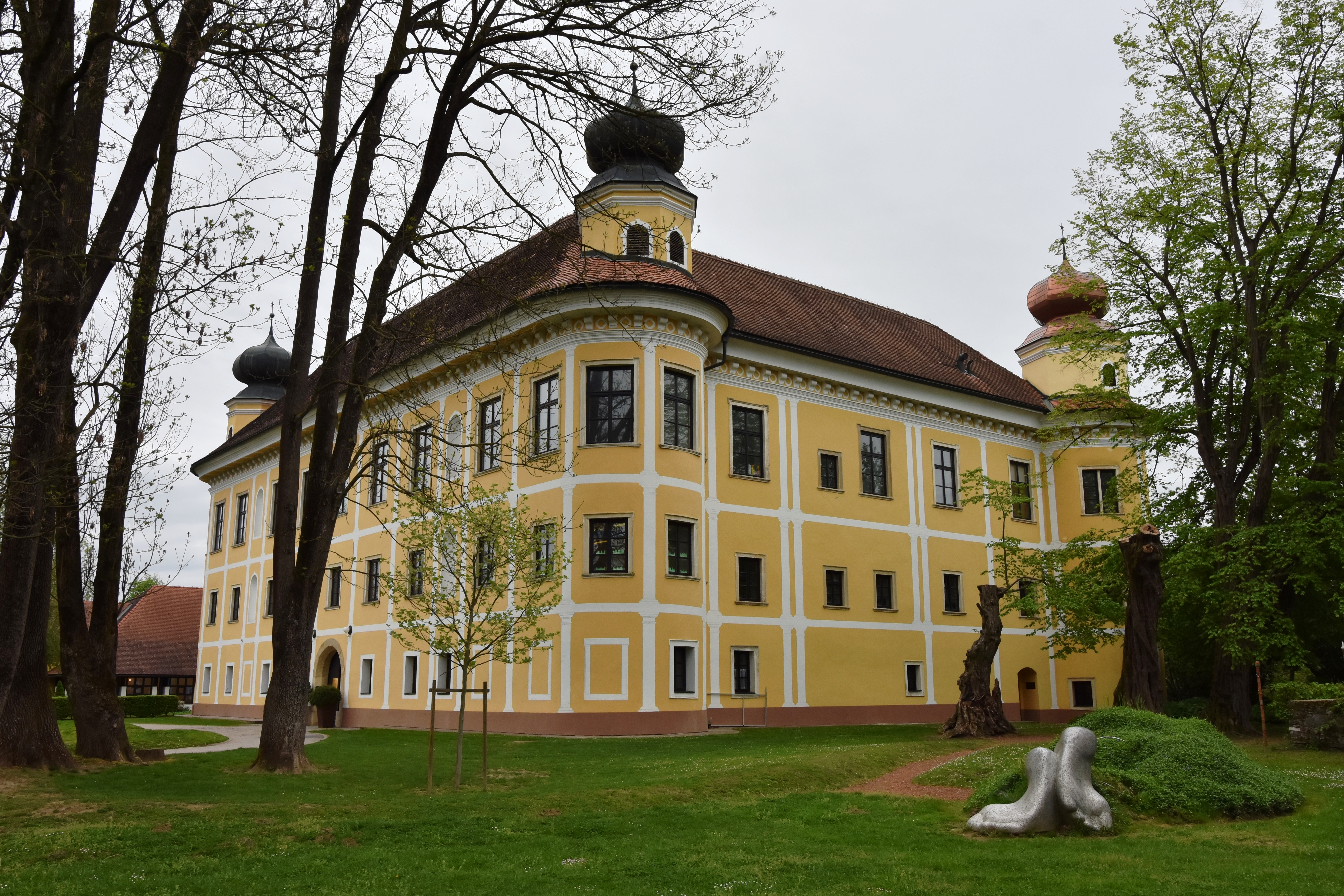 Schloss Gleinstätten